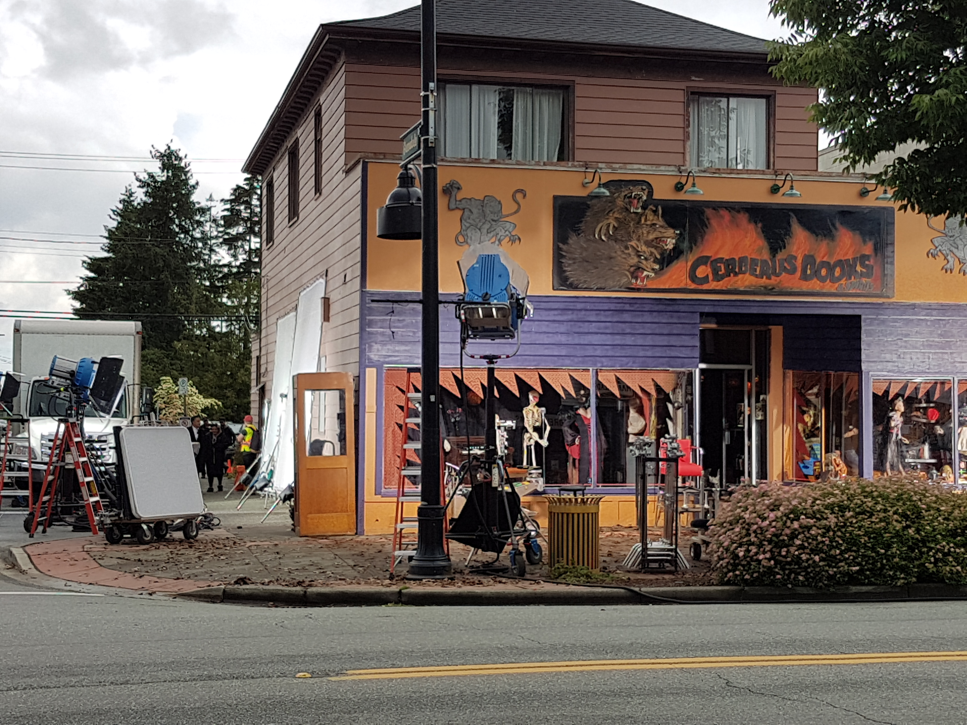 Hangout for the Chilling Adventures of Sabrina - NETFLIX